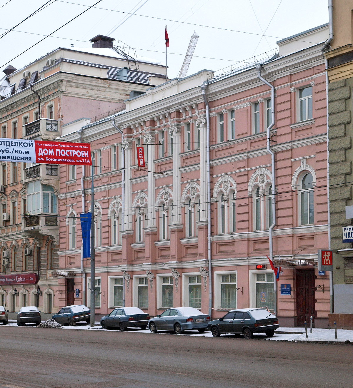 Prospect Mira, Moscow.